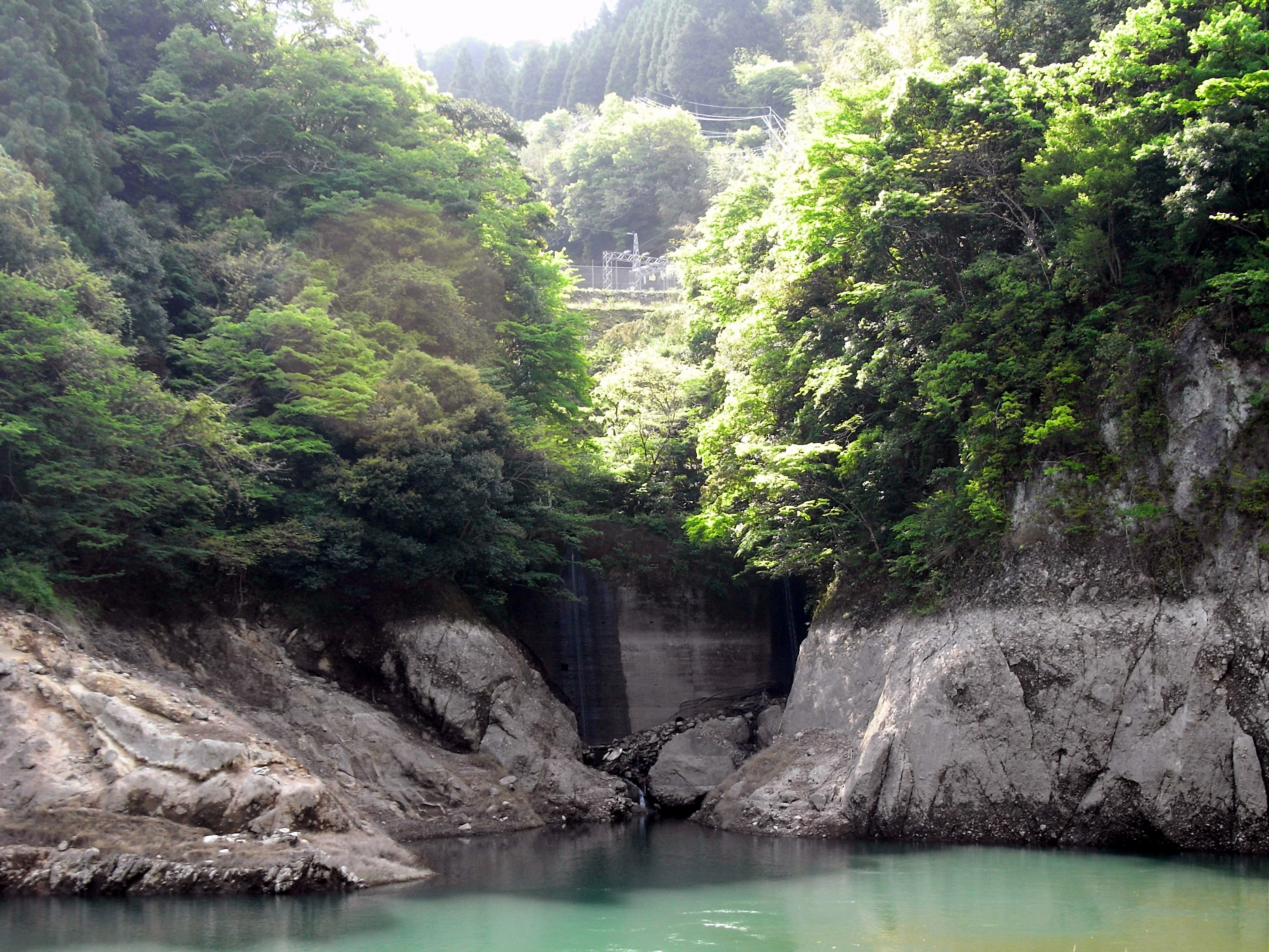 Shimouke power station(Tsuegawa river./Oita pref./Japan)